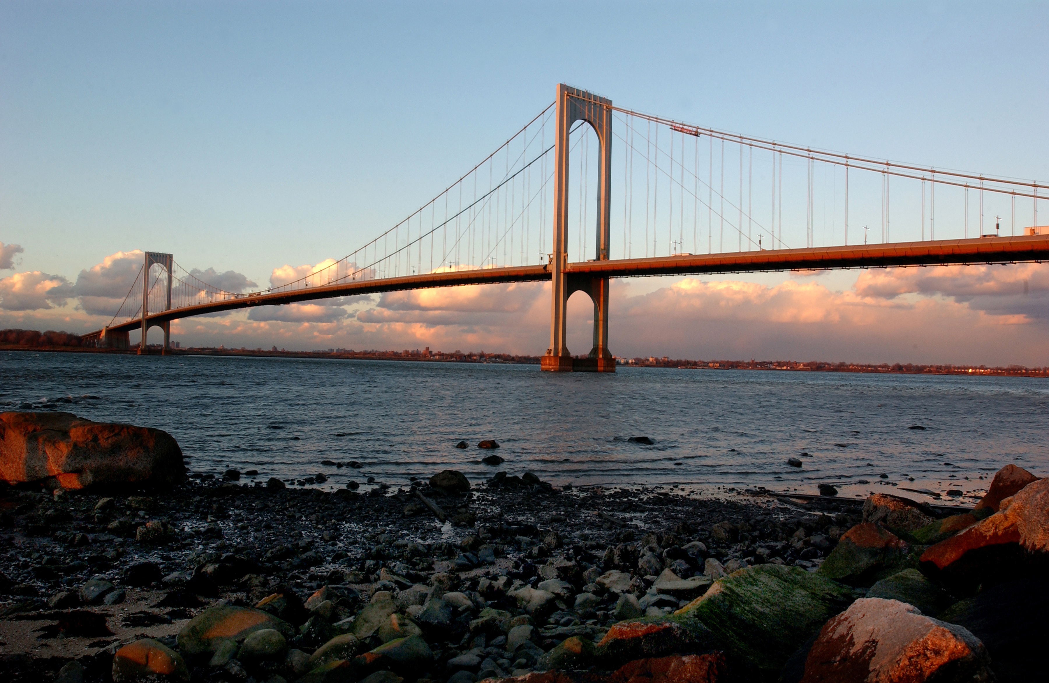 Photo: Metropolitan Transportation Authority / Patrick Cashin.